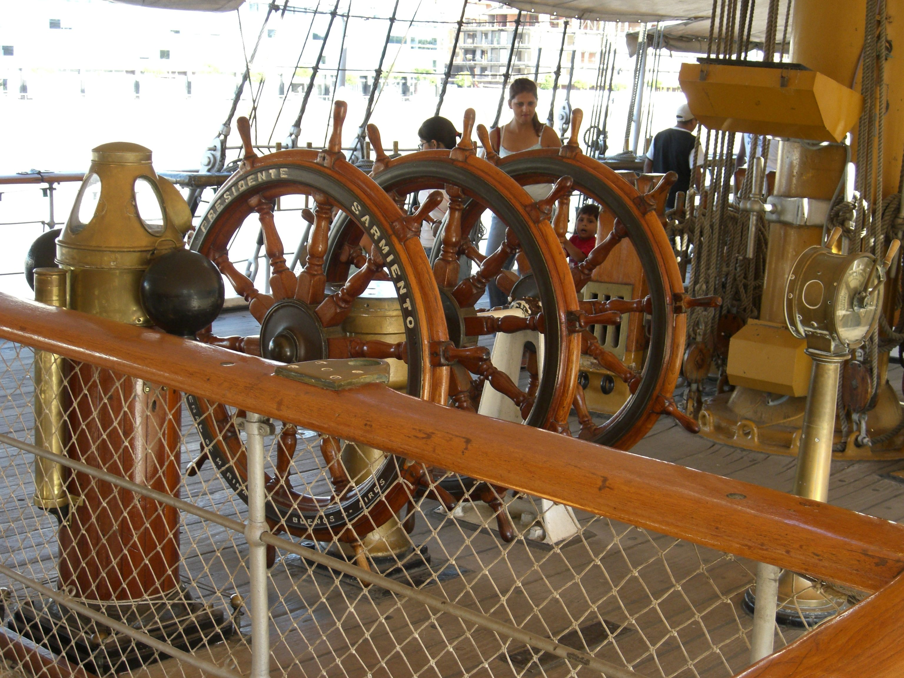 The wheel of the Presidente Sarmiento, Buenos Aires, Argentina